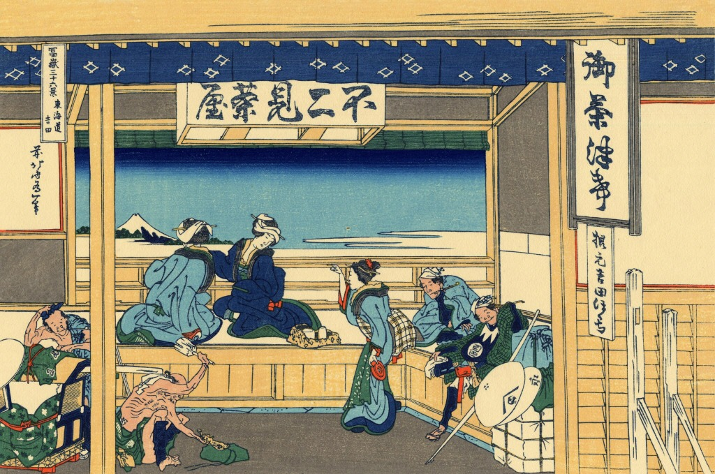 Part of the series Thirty-six Views of Mount Fuji, no. 39, 3rd additional woodcut.